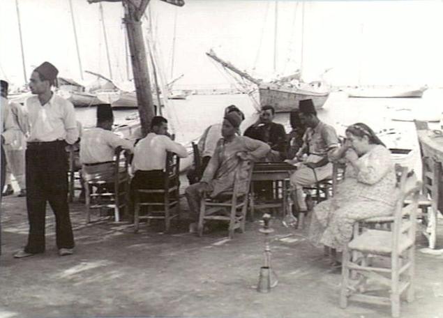 "LEBANON. THE QUAYSIDE AT TYRE, ONCE THE RIVAL OF SIDON FOR THE POSITION OF THE WORLDS MOST IMPORTANT COMMERCIAL SEAPORT AND NOW A SLEEPY ANCHORAGE FOR FISHING BOATS."